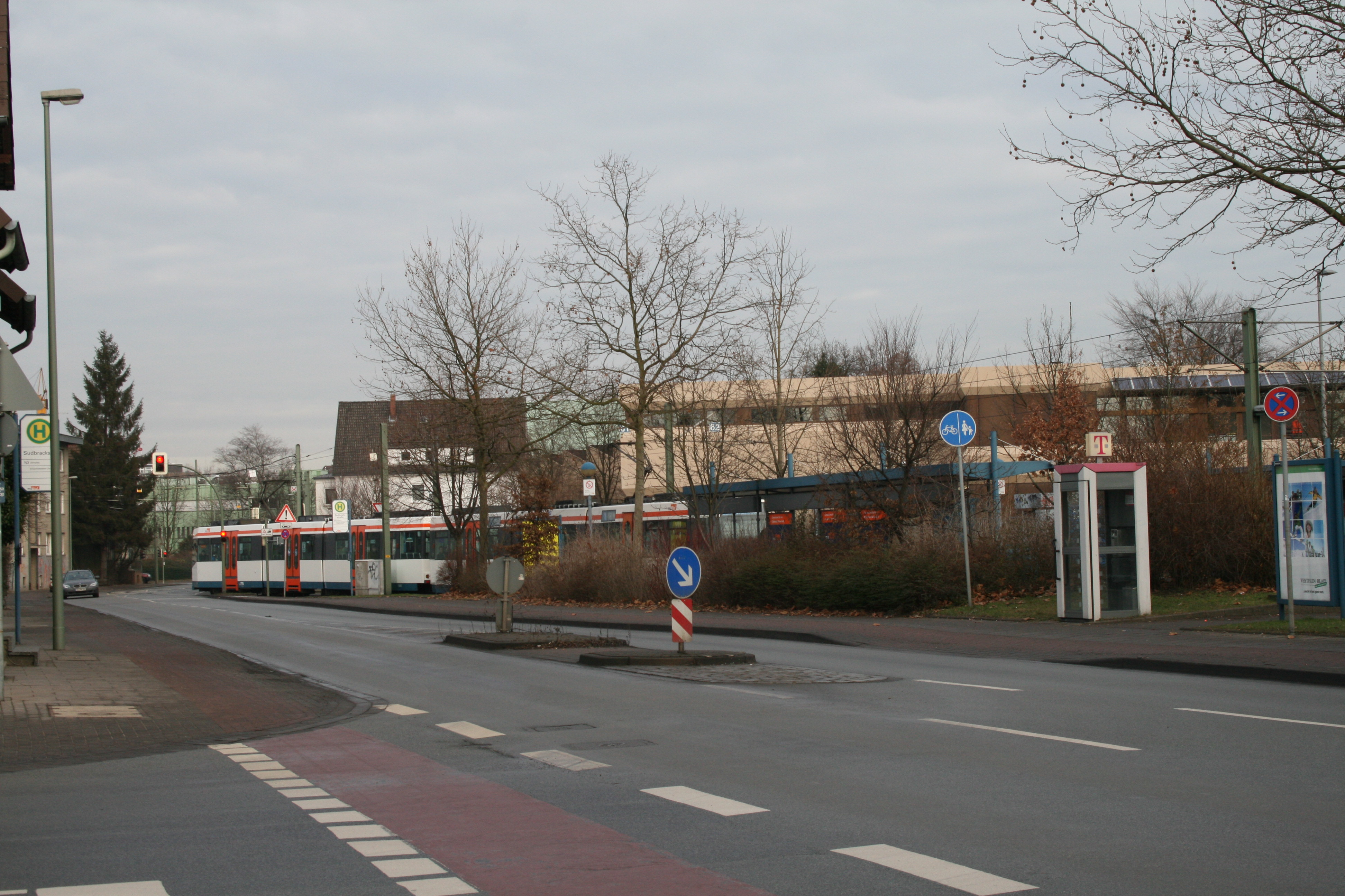 Bielefeld, city railway pulls into the station Sudbrackstraße of line 1 ( 1 Senne – Hauptbahnhof – Jahnplatz – Schildesche).